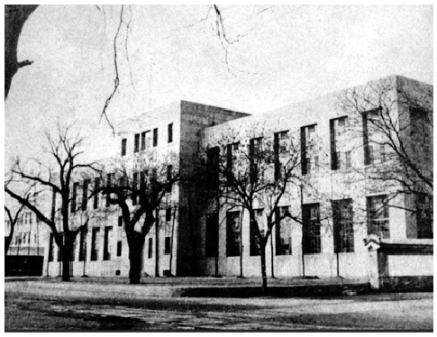 Peking University Library, built in 1935